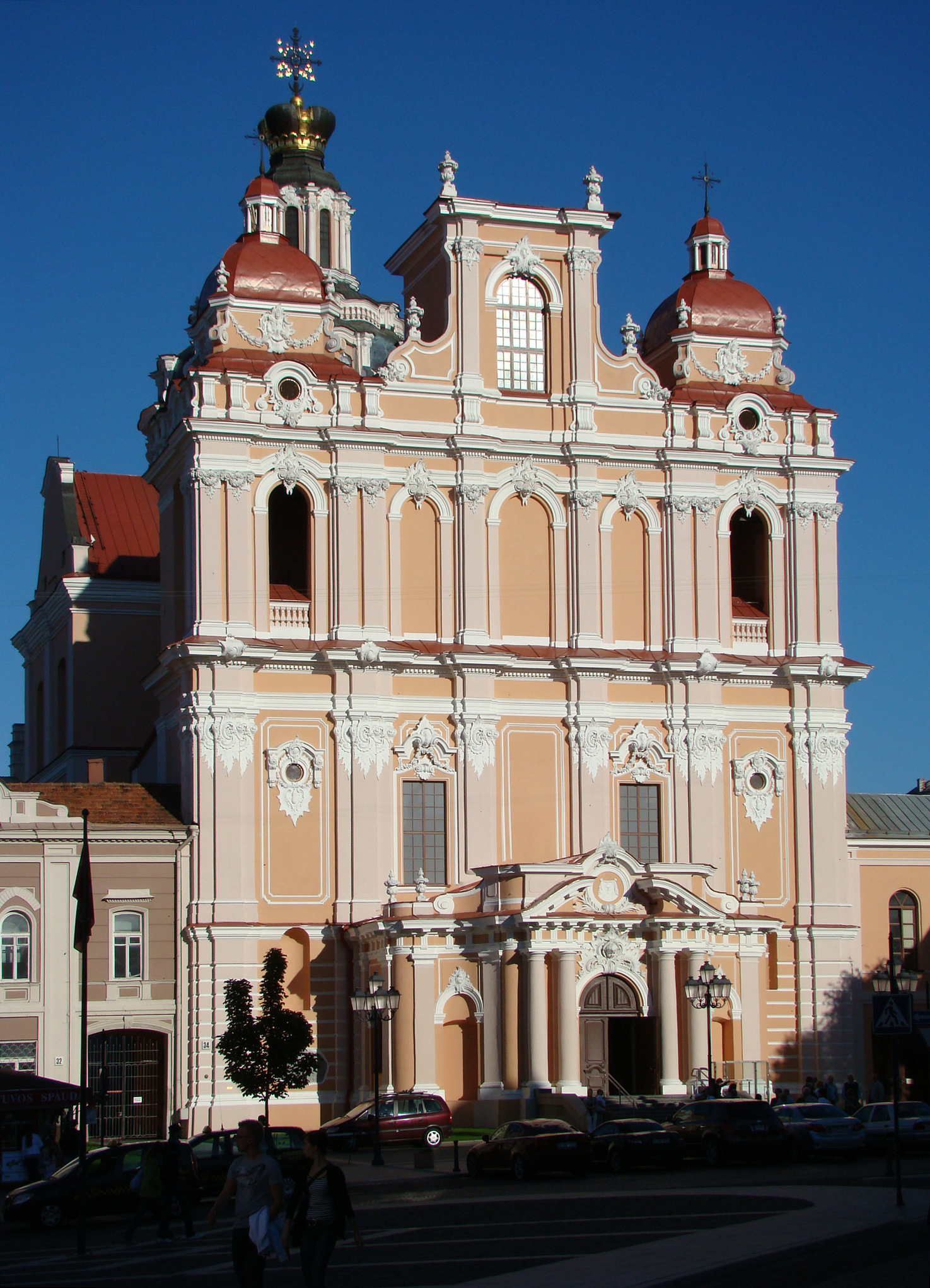 Saint Casimis church in Vilnius at evening.